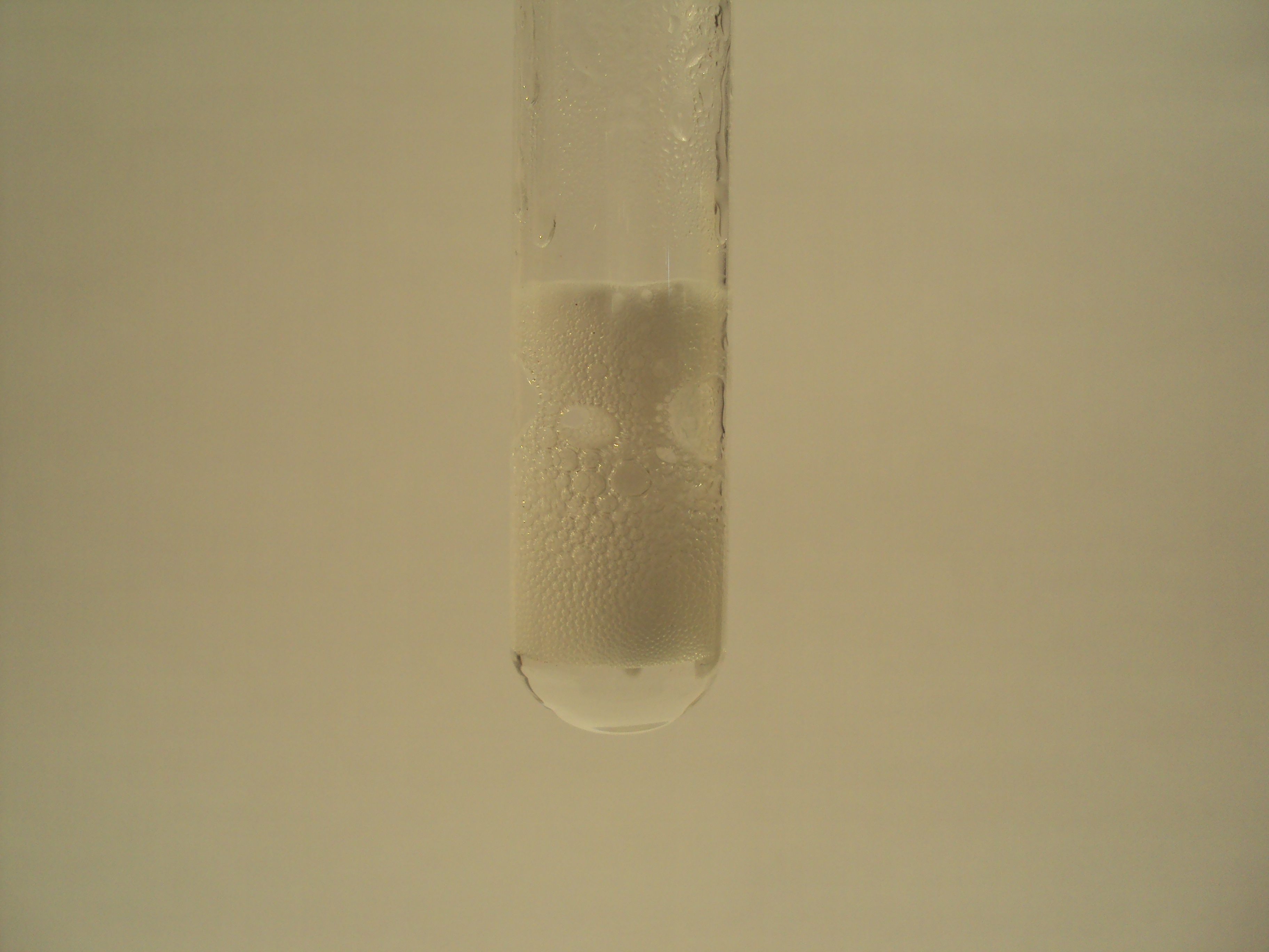 HCl & magnesium reaction